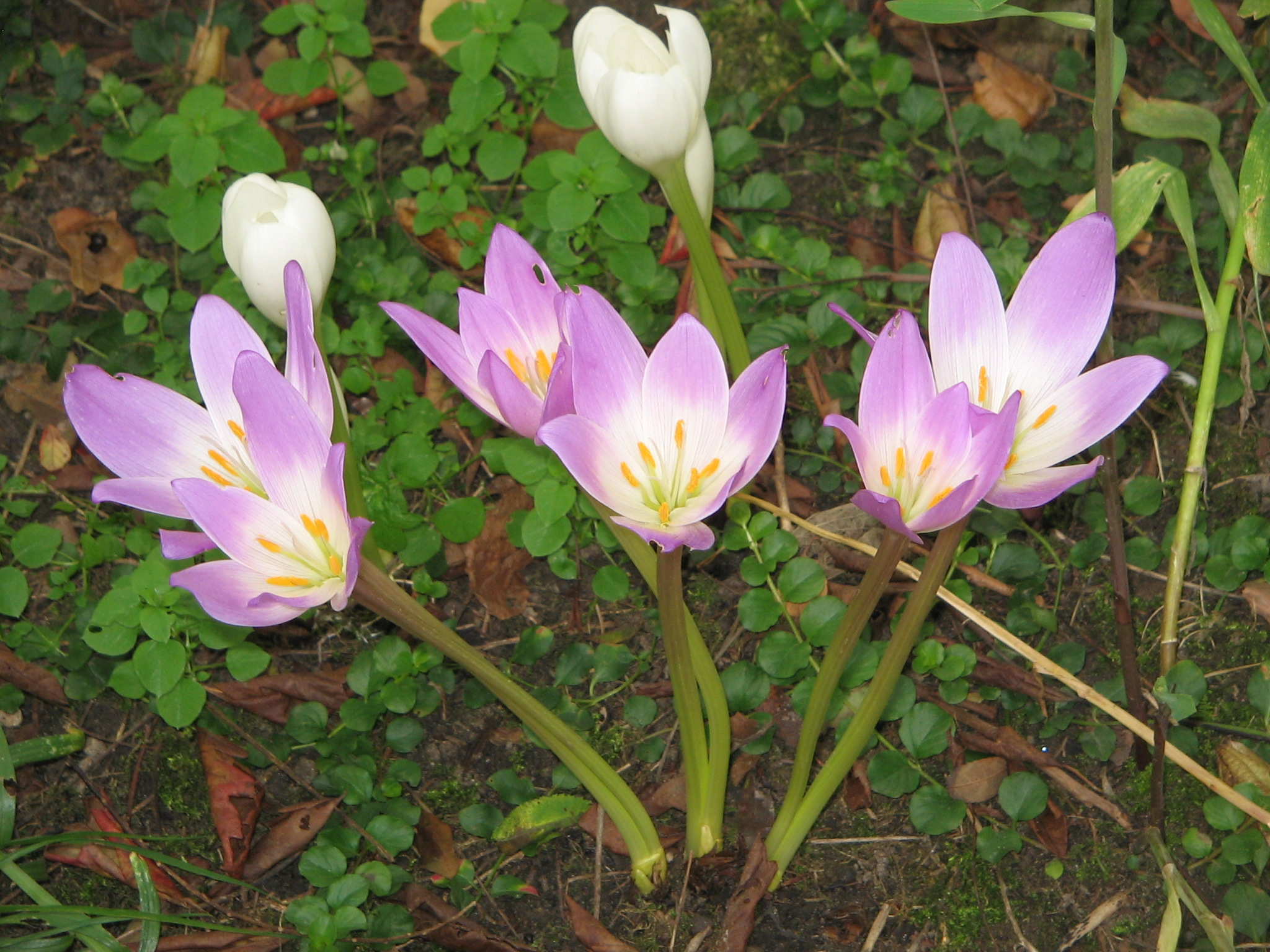 Colchicum speciosum